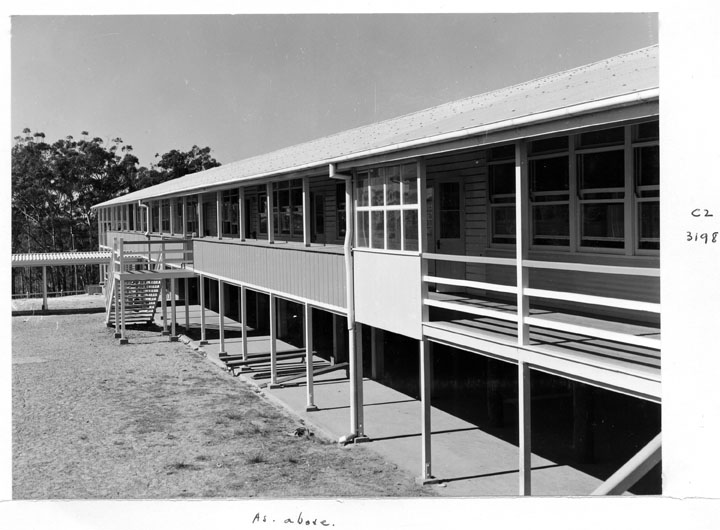 Labrador State School - Gold Coast. (Original photo caption makes reference to Public Works Department)